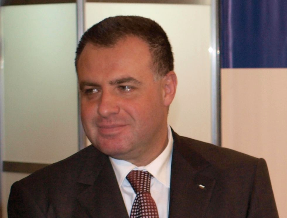 The Bulgarian Minister of agriculture and foods Miroslav Naidenov.